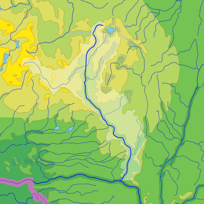 Dubysa basin / catchment area of Dubysa in relation to the Neman